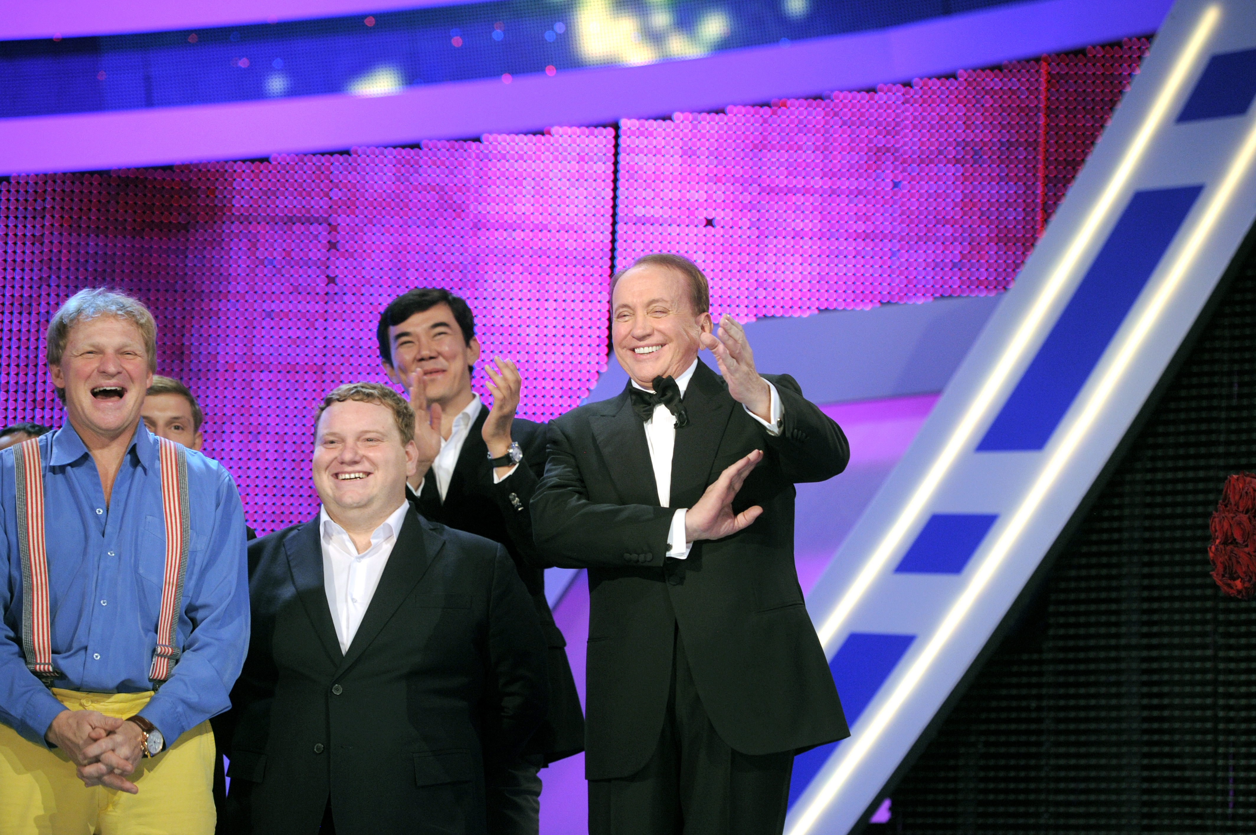 50th anniversary episode of the KVN comedy show